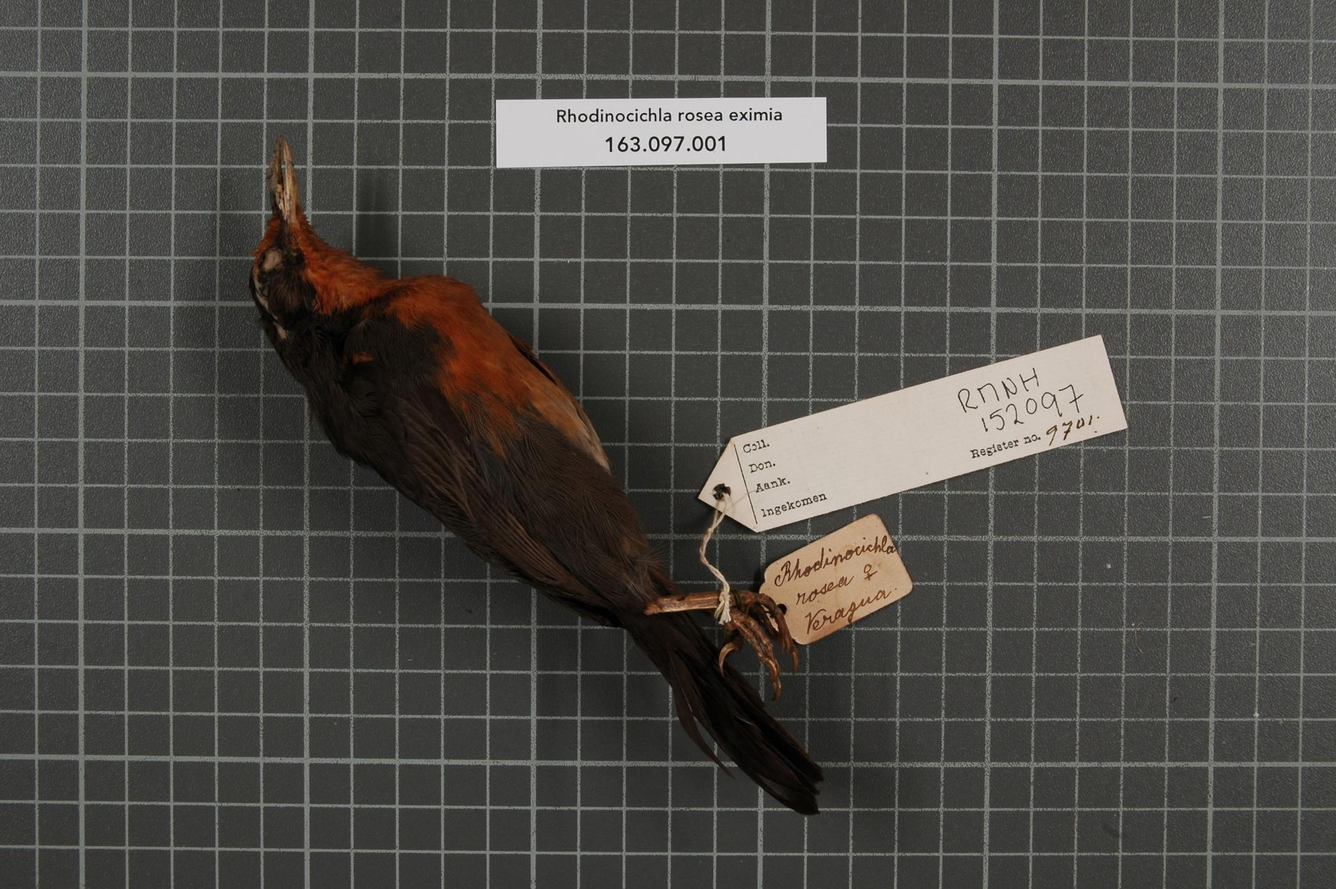 Rhodinocichla rosea eximia Ridgway, 1902